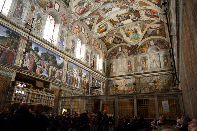 Sistine Chapel showing the East Wall and a portion of North Wall